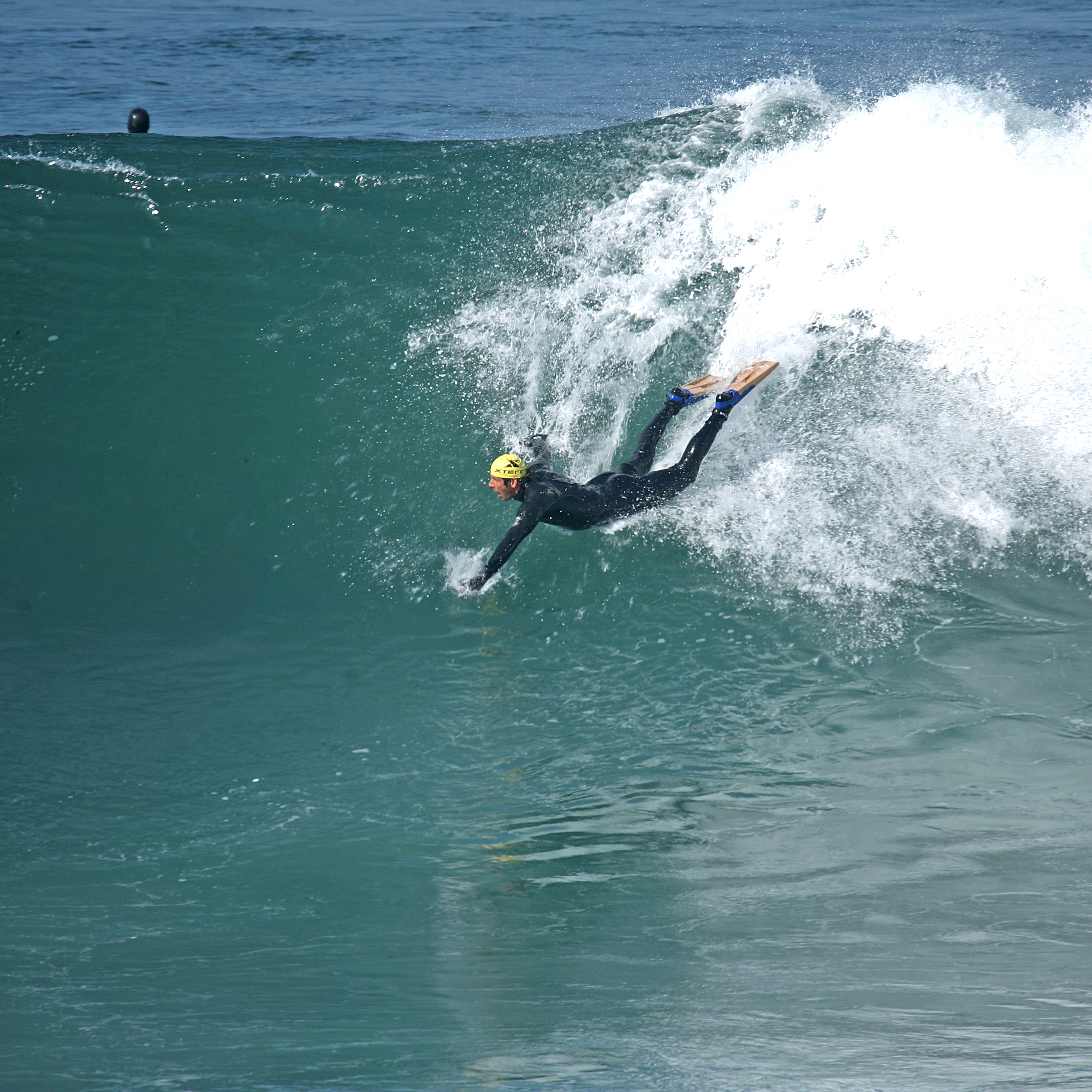 Bodysurfing in San Diego, California, January 2008